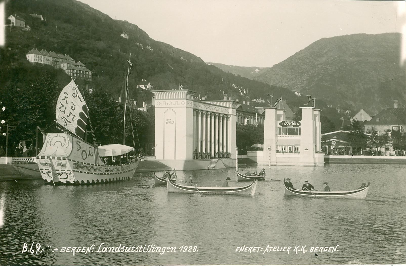 Artist: Atelier K.K. (Knud Knudsen) Date/place: May 1928, Bergen/Norway Subject: Exotic boats on the lake Lille Lungegårdsvann in the center of the National fair in Bergen 1928. Medium: Postcard Notes: More of Knudsen´s work available at: the picture collection at the University of Bergen (in Norwegian only). Persistent URL: n/a Original belongs to the Local Collection at Bergen Public Library